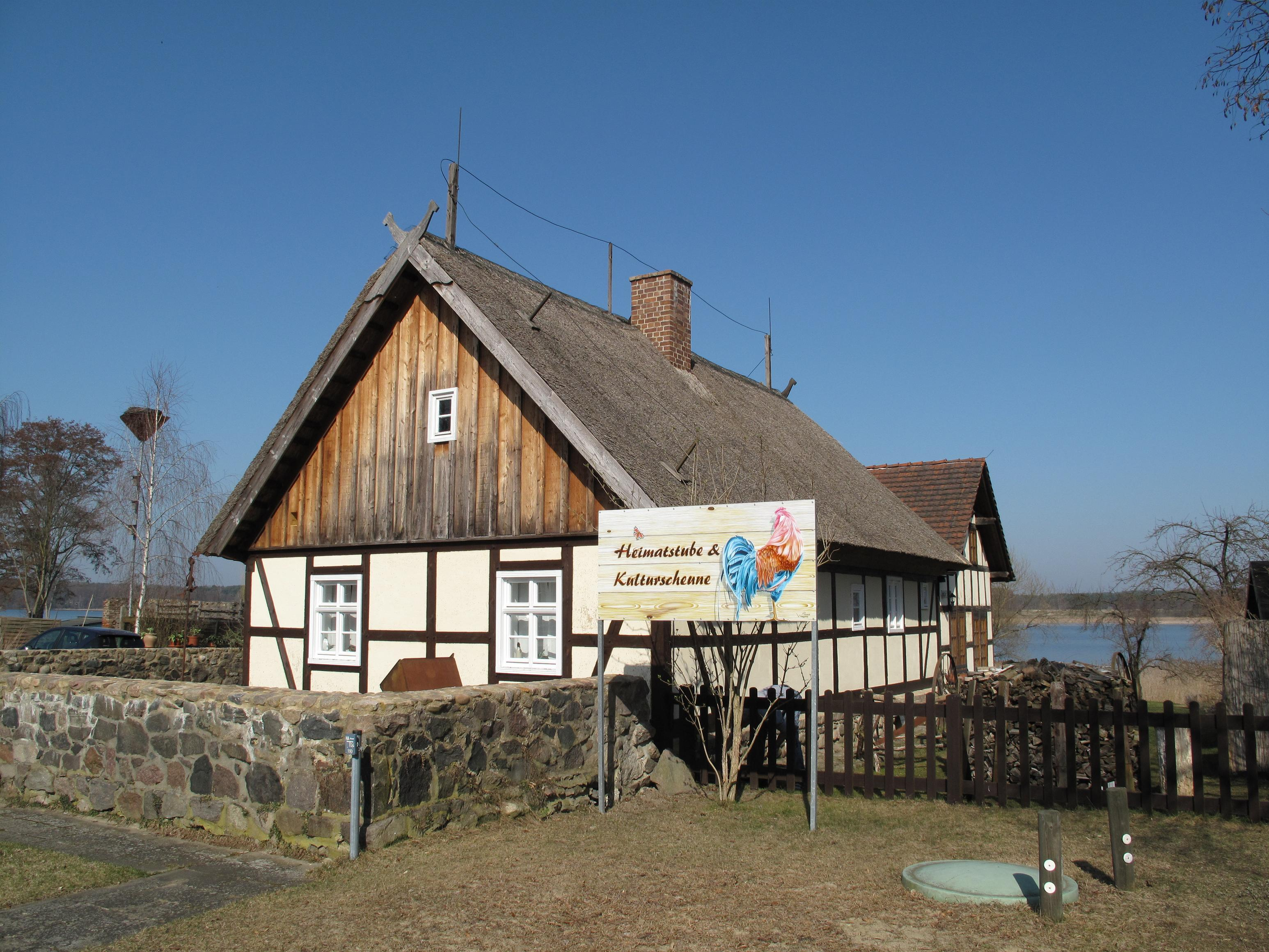 Listed, last and thatched timber framed house in Kähnsdorf. Built around 1700 as private house, between 1825 and 1930 used as school, reconstructed since 1995 and 2001 opened as cultural village hall and local history museum. The Großer Seddiner See is a glacial lake in the nature park Nuthe-Nieplitz in Germany, Brandenburg, district Potsdam-Mittelmark, and covers 2,18 km². The lake is situated in the municipalities Seddiner See and Michendorf.